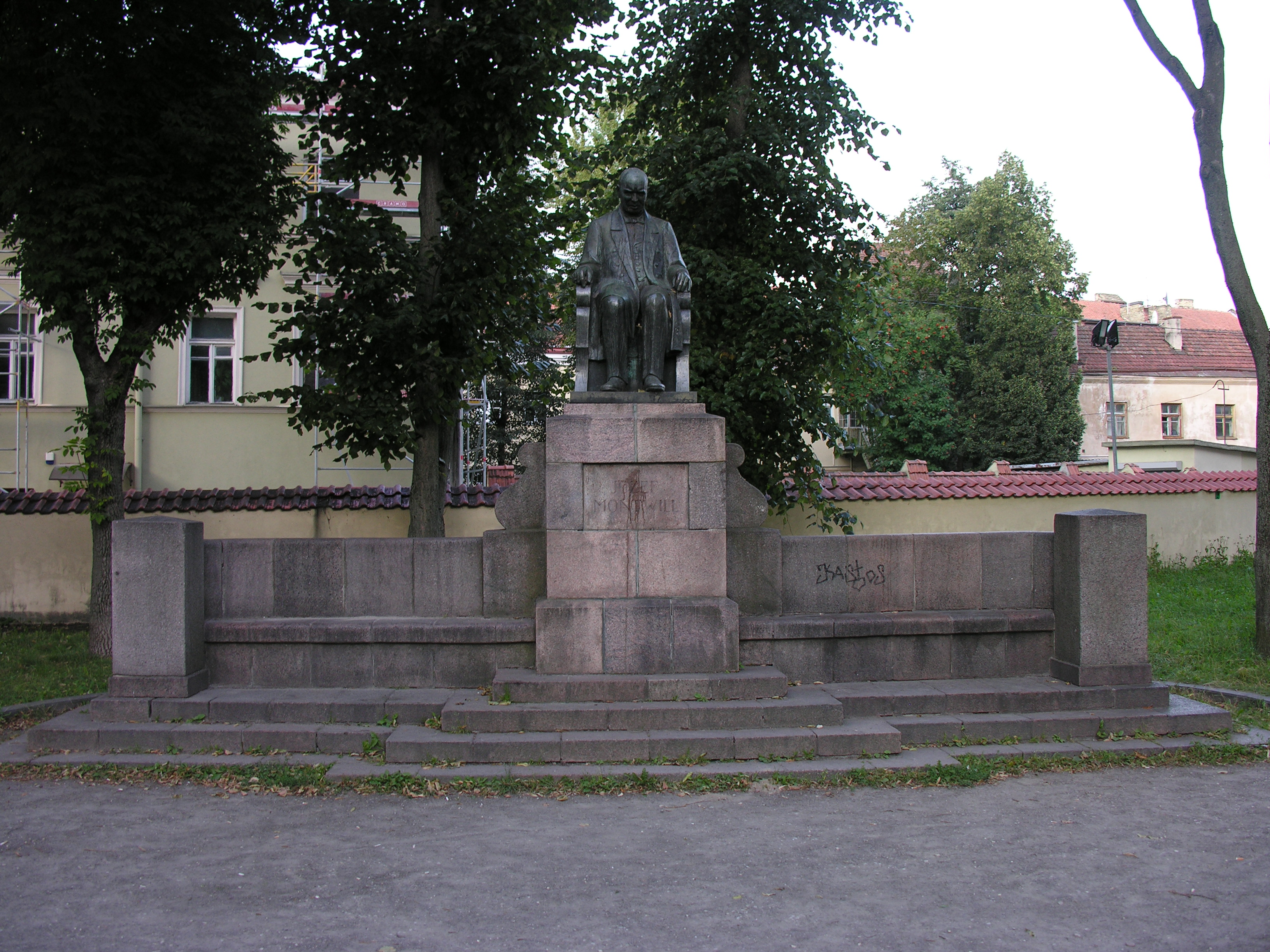 Pomnik Józefa Montwiłła w Wilnie